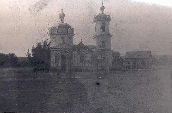 Saint Nicholas church in Elshanka village near Tsaritsyn, now a part of Volgograd city Unknown